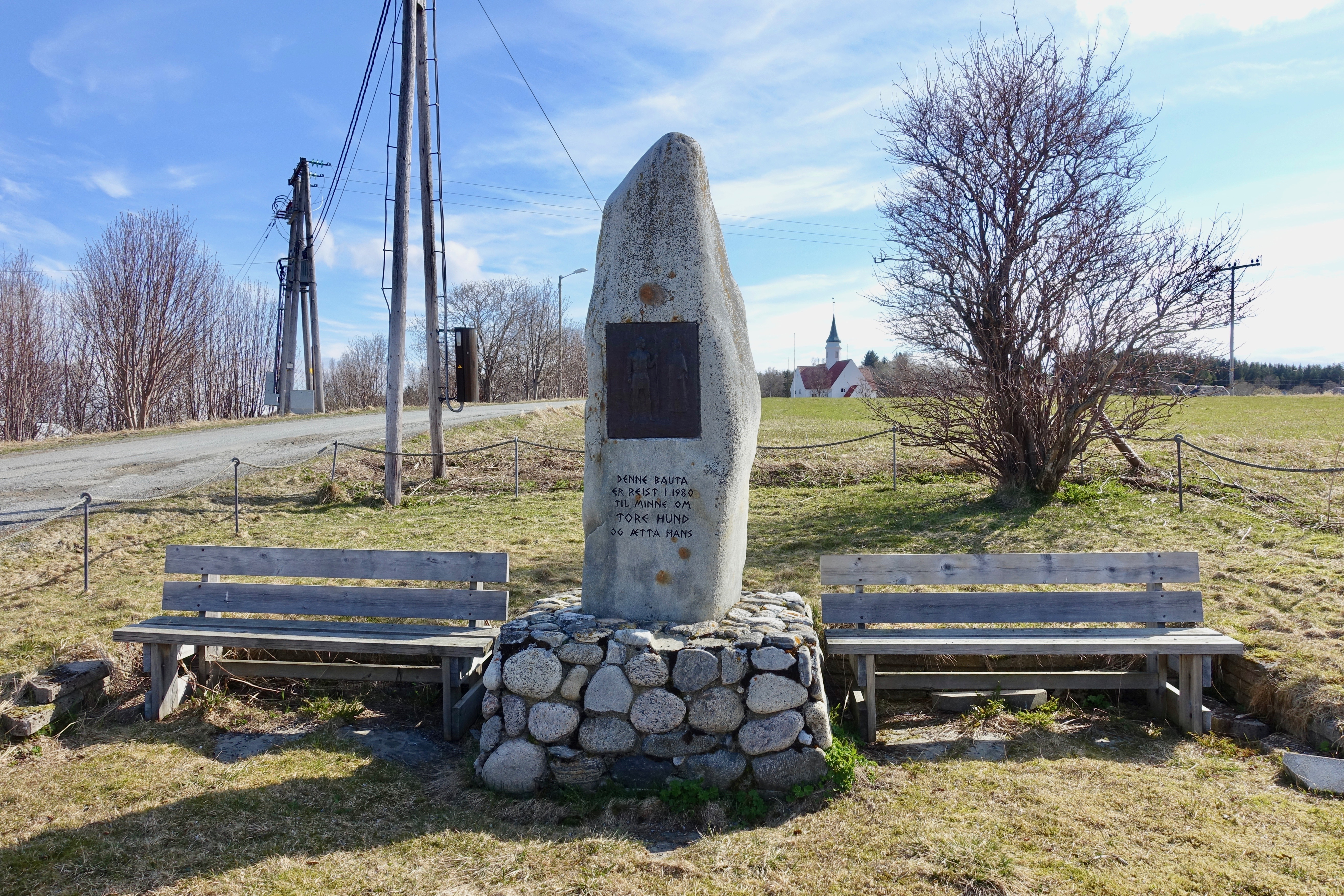 "Þórir hundr Monument" and benches in the village of Nergården on the island of Bjarkøya in Troms county, Norway. Bjarkøy Church is seen in the background. Also field, naked trees, etc. in spring of Northern Norway. iPhone photo taken on May 9th, 2019.